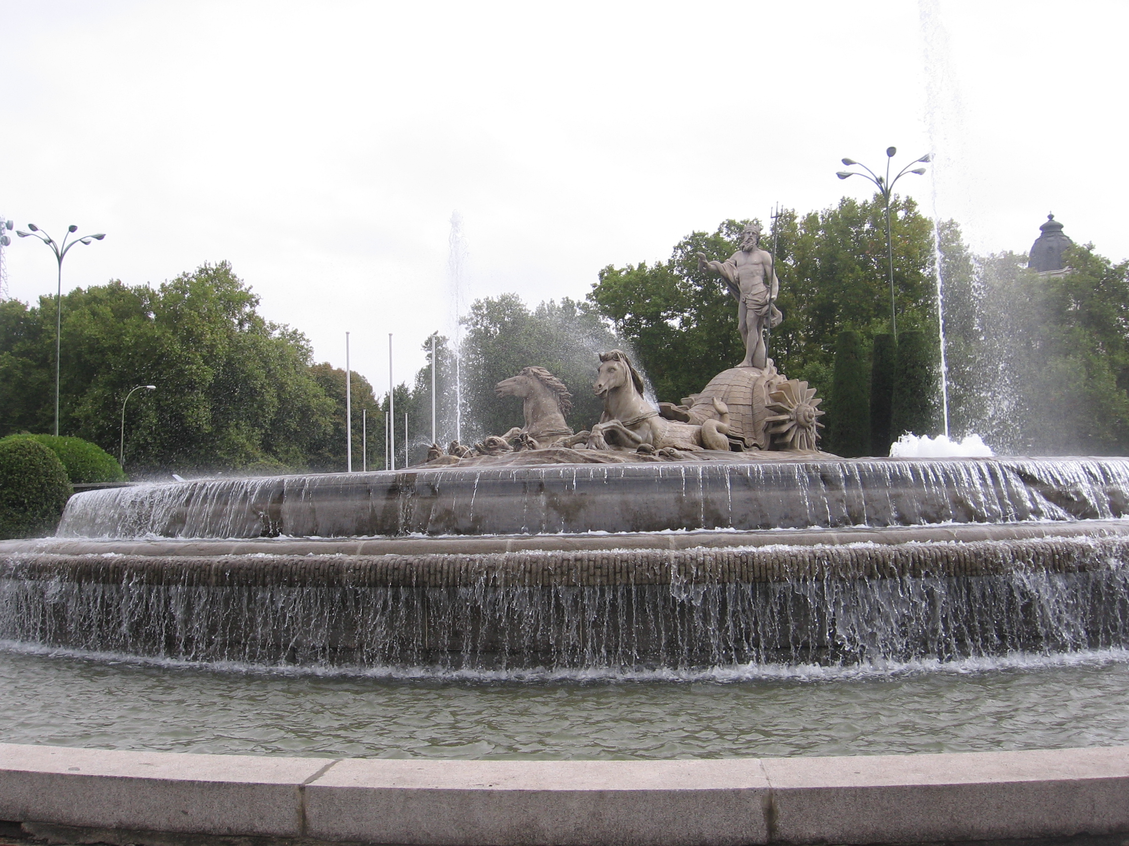 Paseo del Prado, Madrid: Neptune fountain.